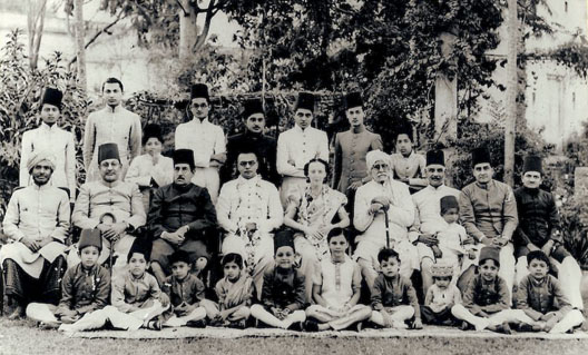 Group photo of family notables on occasion of award of "Khan Sahib" title to Syed Ahmed Quadri